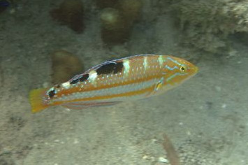 Puddingwife wrasse (Halichoeres radiatus)